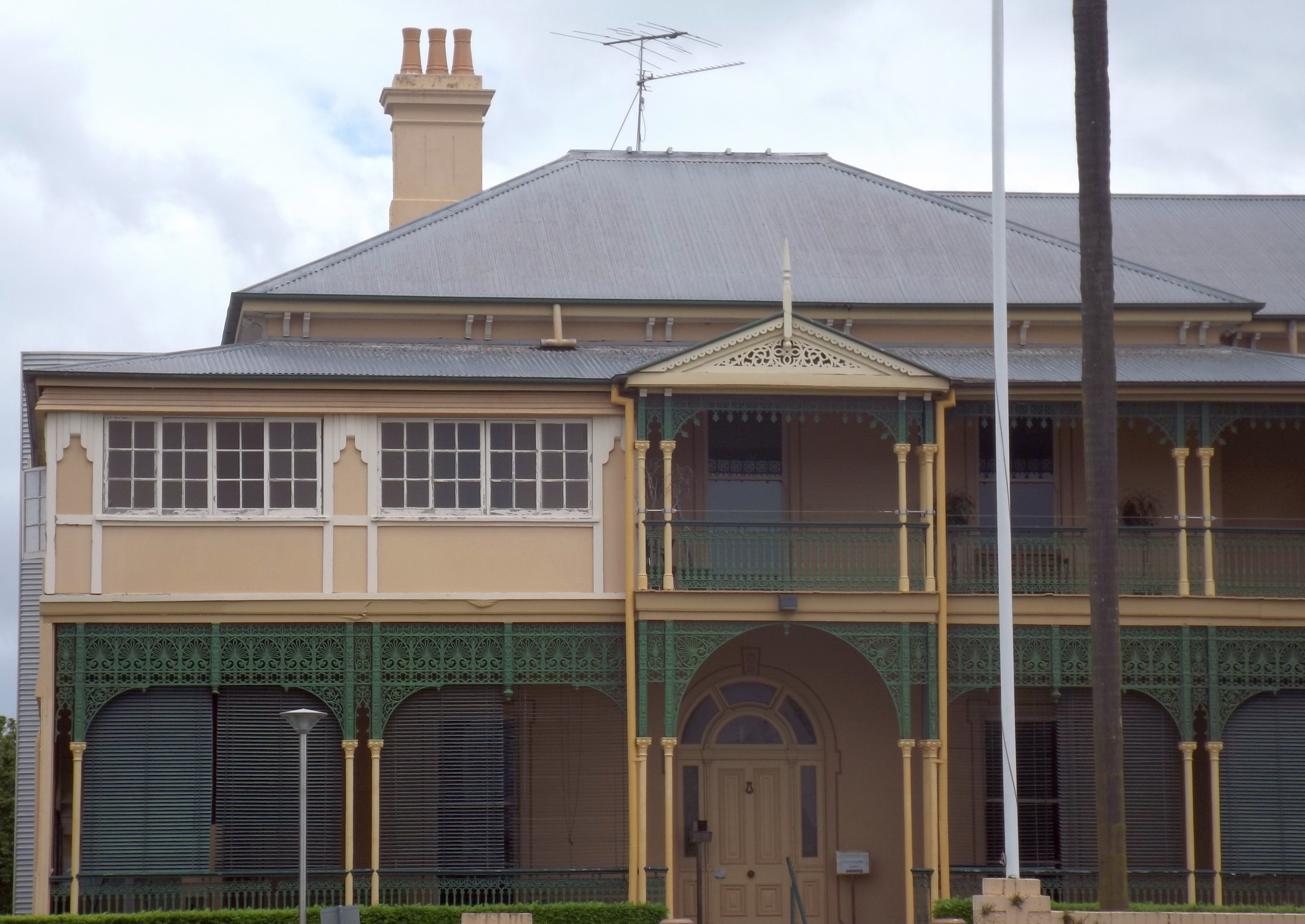 Photo of eastern end of Queen Alexandra Home as seen from opposite site of Old Cleveland Road at Coorparoo, Brisbane, Queenlsand, Australia.